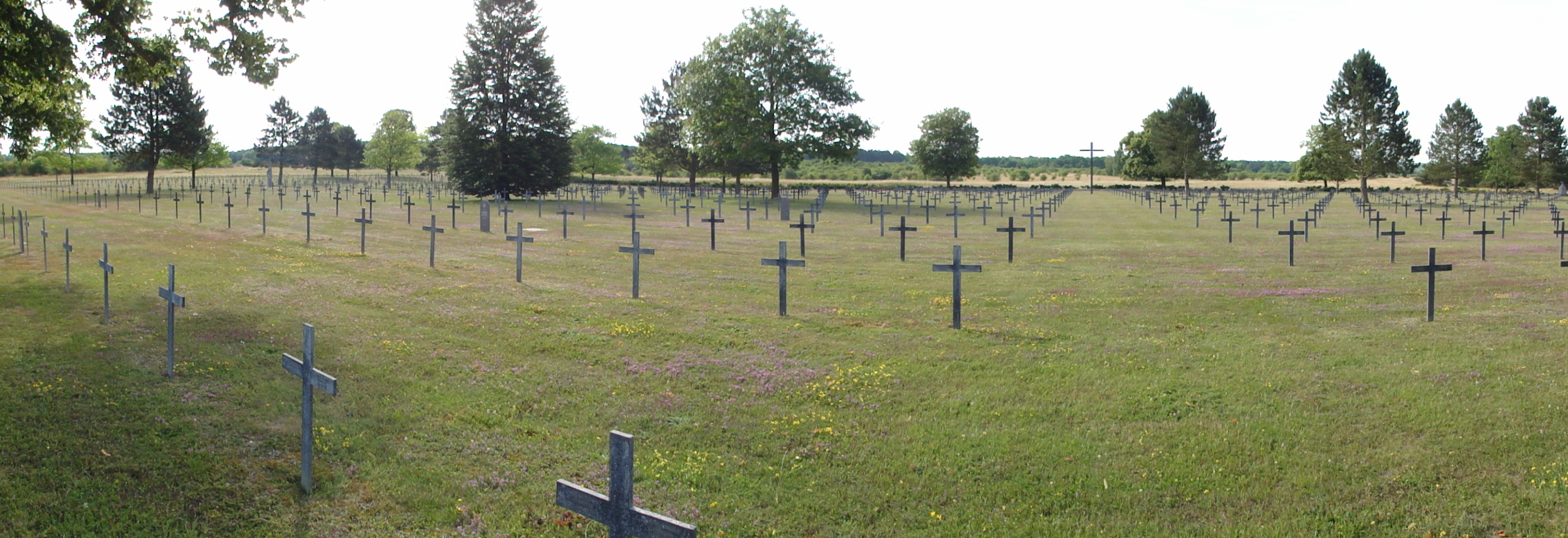 Cimetière militaire allemand de Sissonne